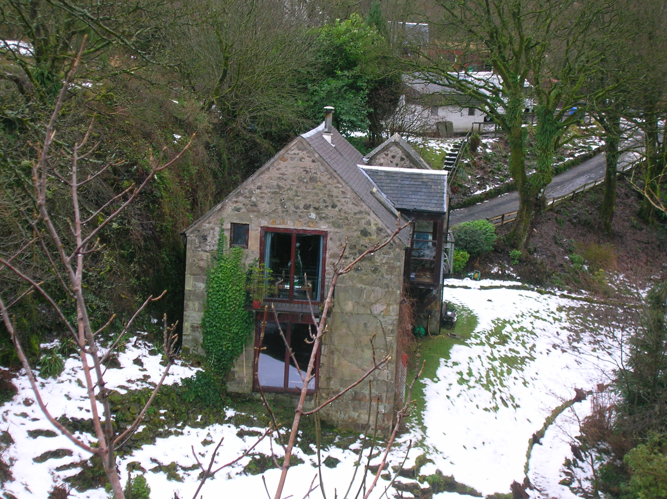 The Mill of Beith on the Roebank Burn, North Ayrshire, Scotland.